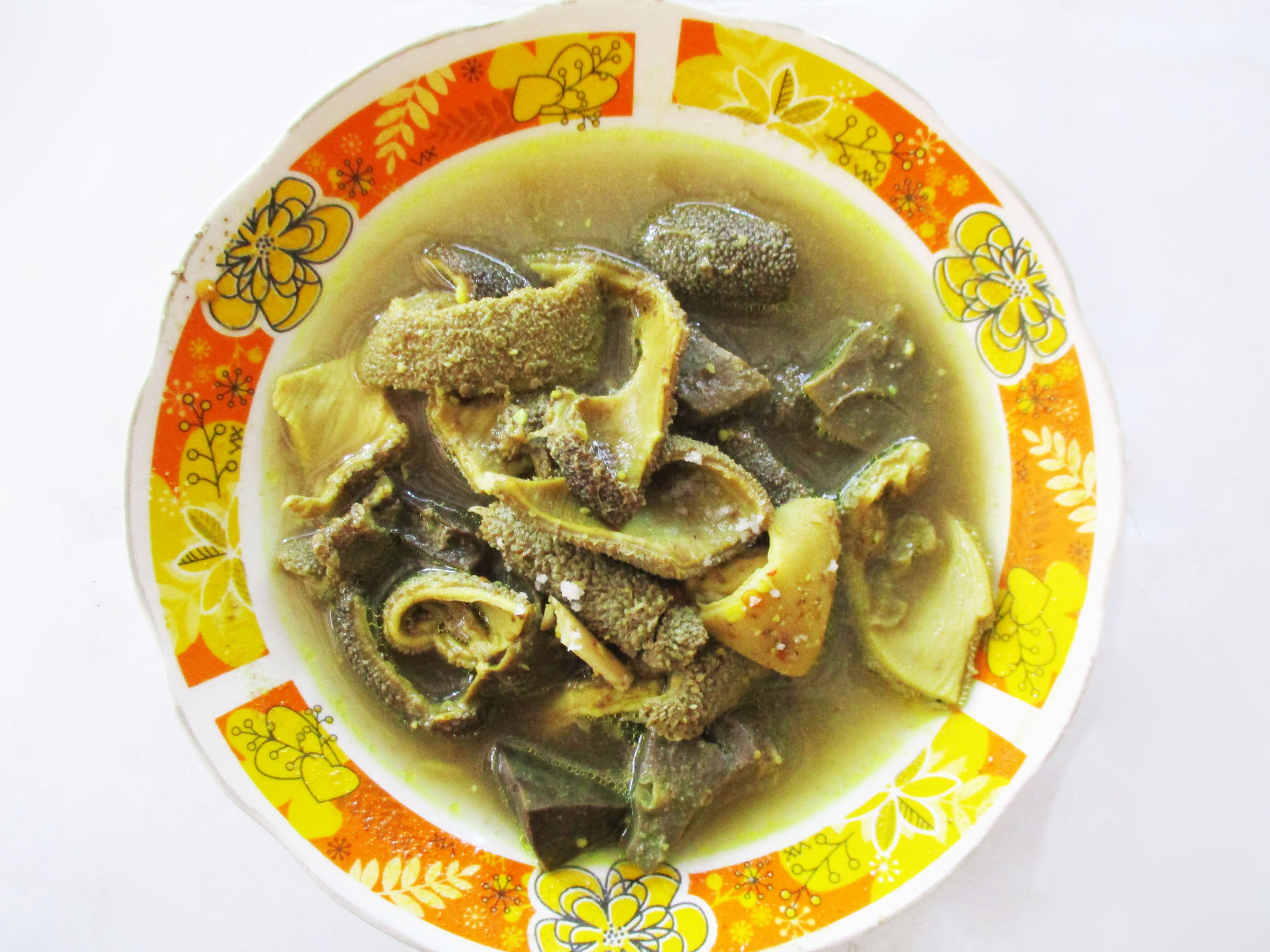 Gulé babat is a soup goat or ox's tripe. Usually we see this food in satay stall.